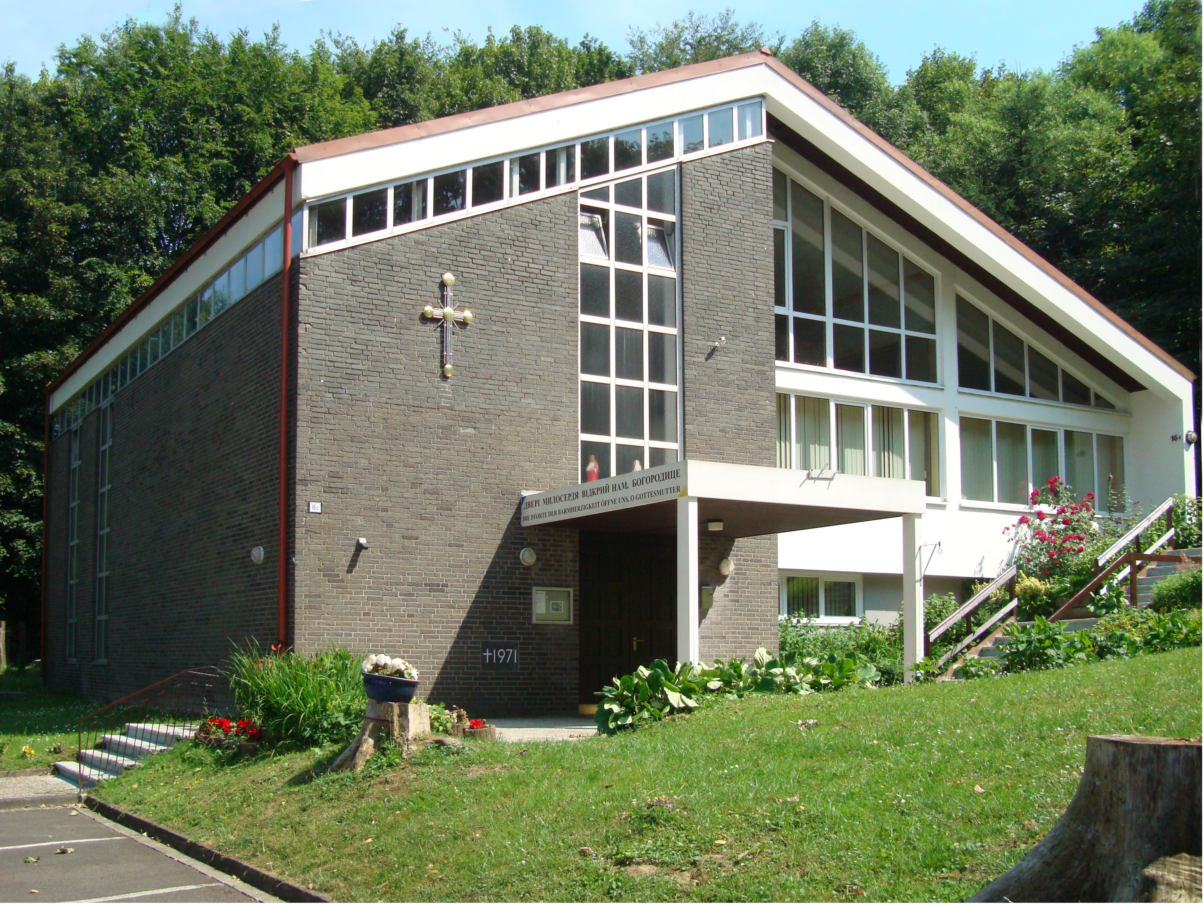 Ukrainian Greek Catholic Church in Bielefeld